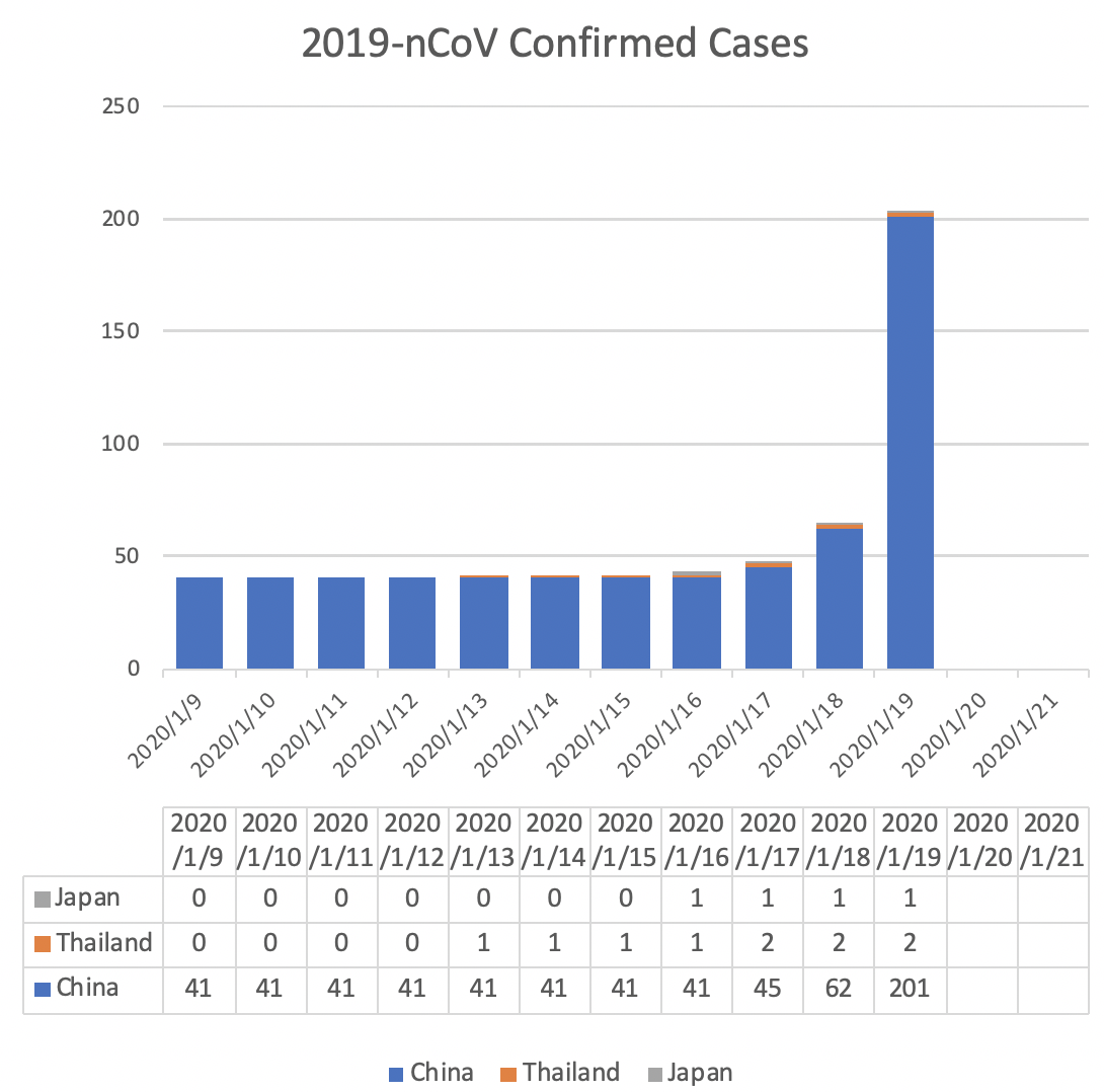 2019-nCoV cases since Jan.9, 2020